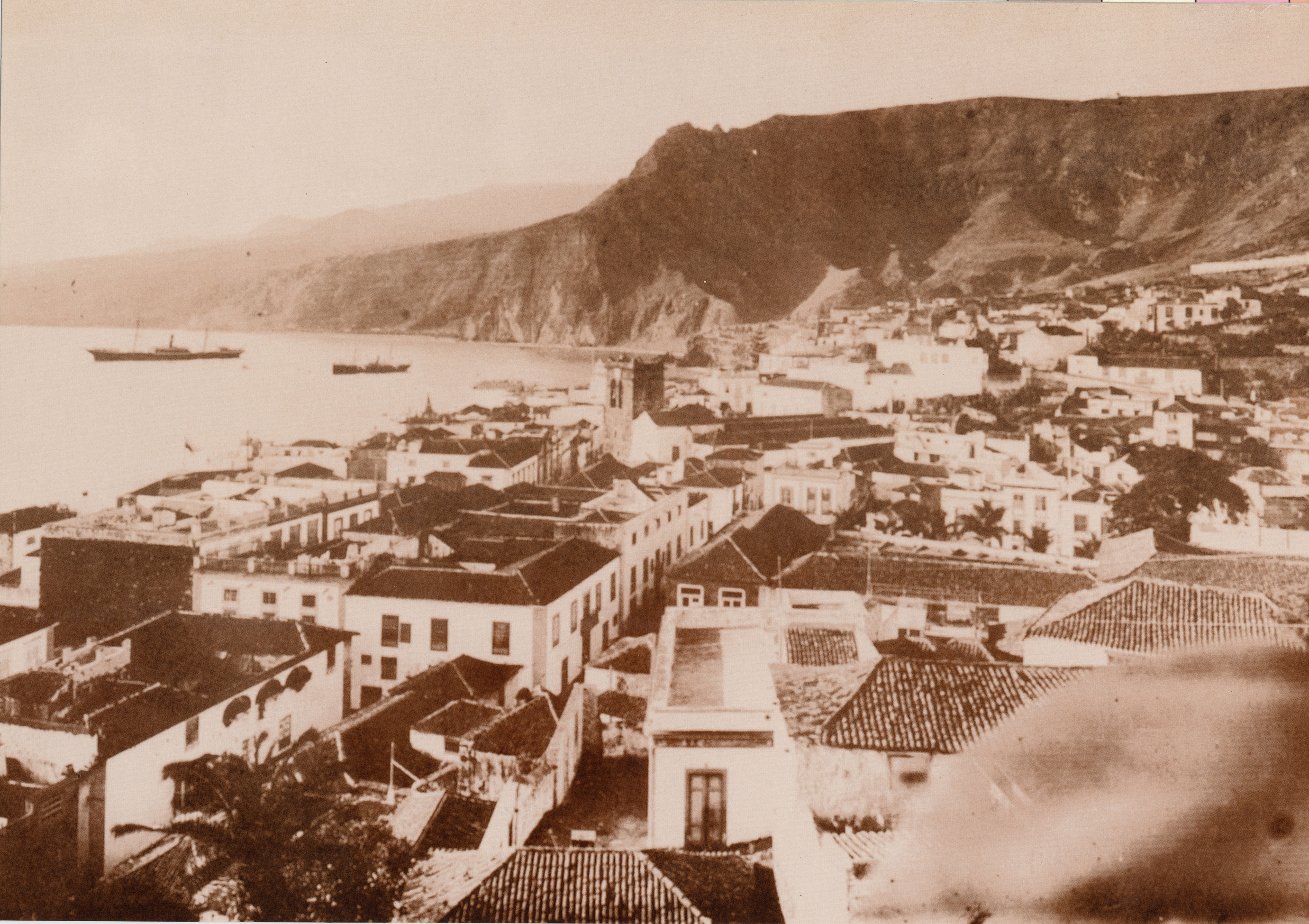 View of Santa Cruz de La Palma and its bay, circa 1890.